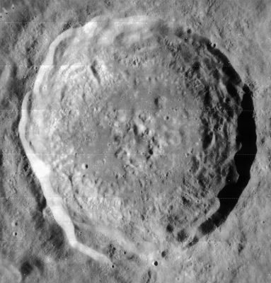 Lunar Orbiter IV-103-H2 image